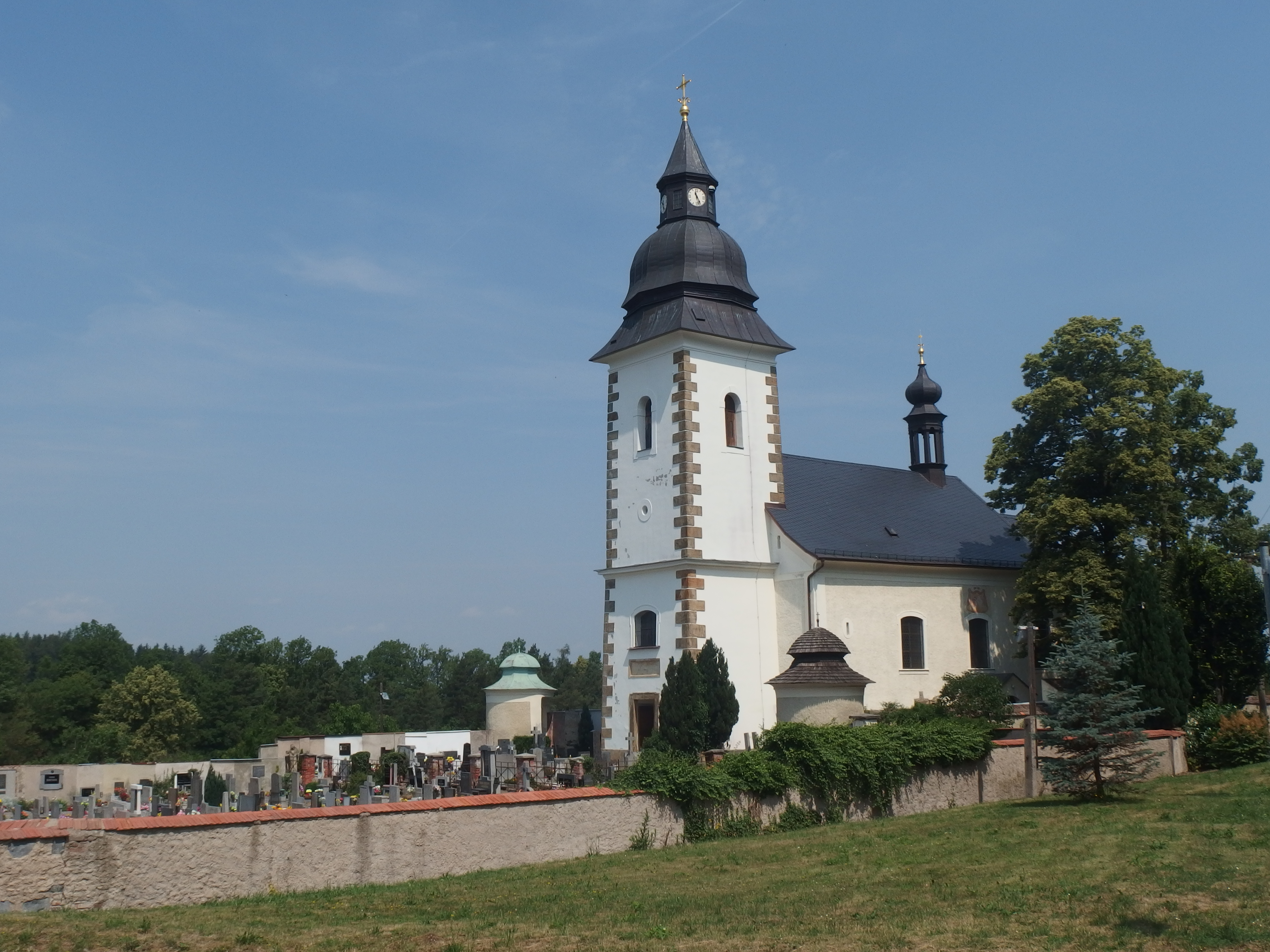 Předhradí, Chrudim District, Czech Republic.